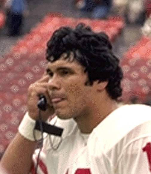 Jim Plunkett playing for the San Francisco 49ers